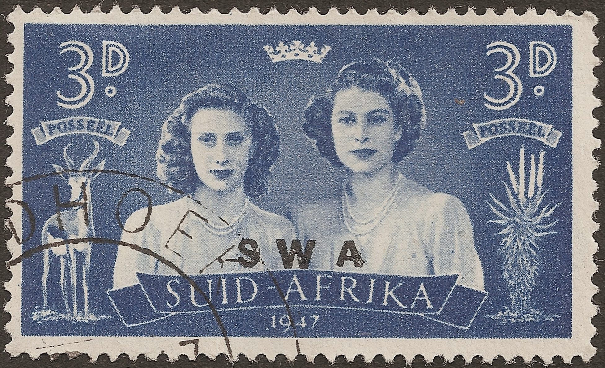 Stamp of South Africa, overprint to be used in South-West Africa, 1947, and figuring princesses Elizabeth and Margaret. It commemorated the visit of the British Royal family in Africa. The series has got three stamps (issued in two languages in South Africa, and overprinted for the SWA, including this one.